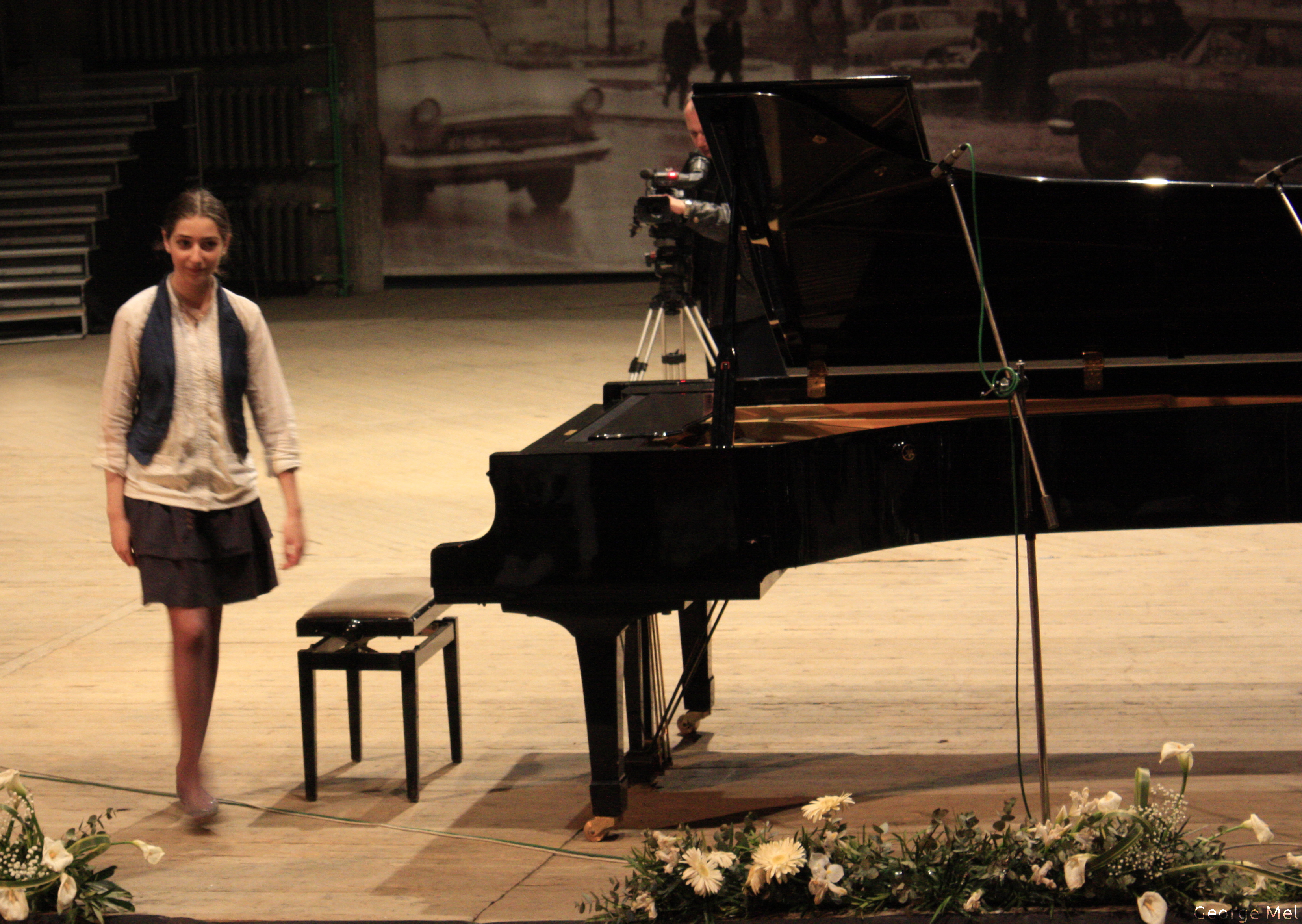 The photo of Irma Gigani.